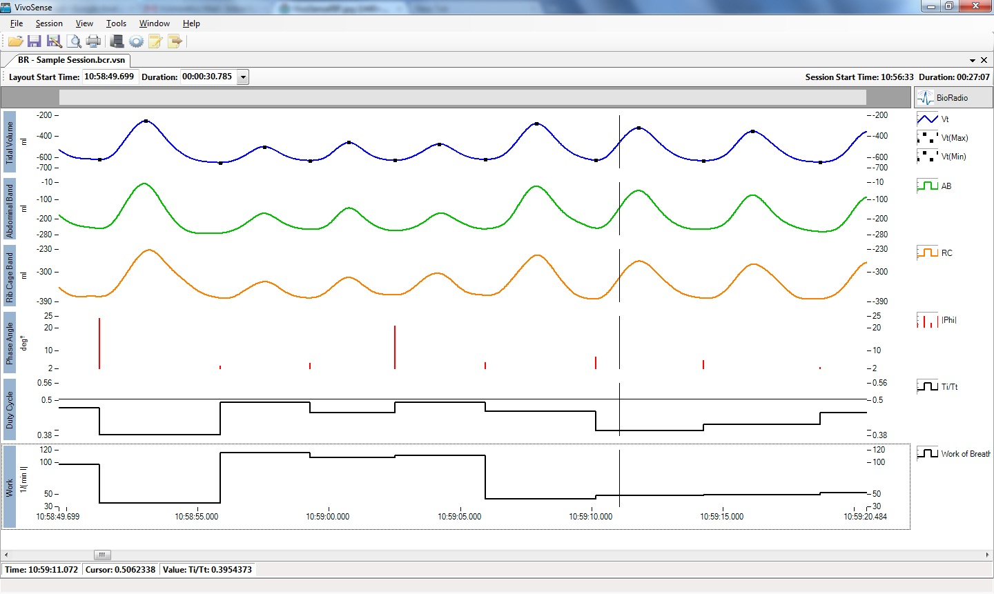 A screenshot of the VivoSense software by Vivonoetics showing respiratory inductance plethysmography data waveforms and measures.